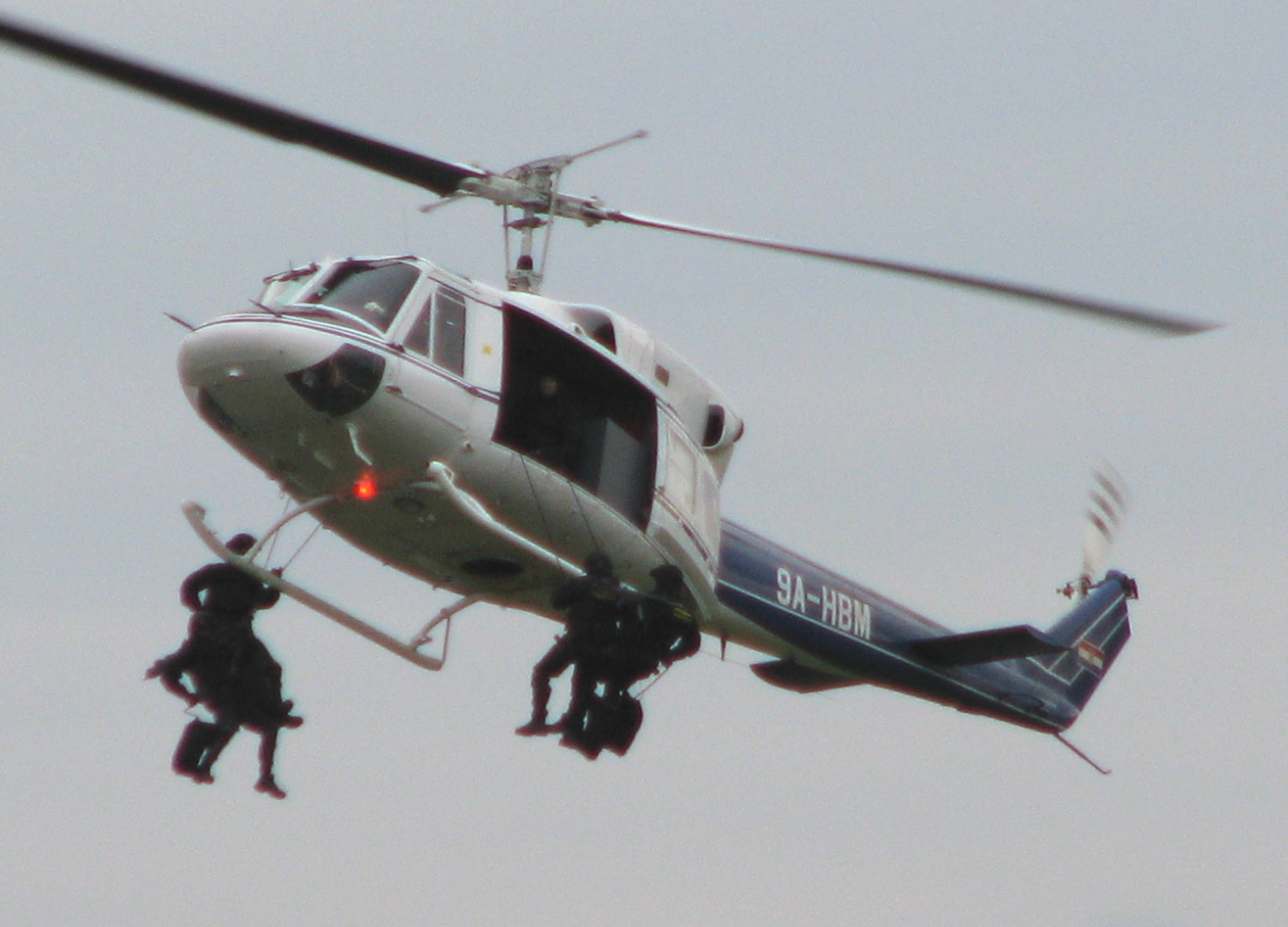 ATJ Lučko members at Lučko Air Show 2008